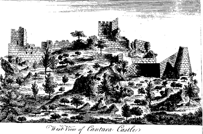 Kantara Castl